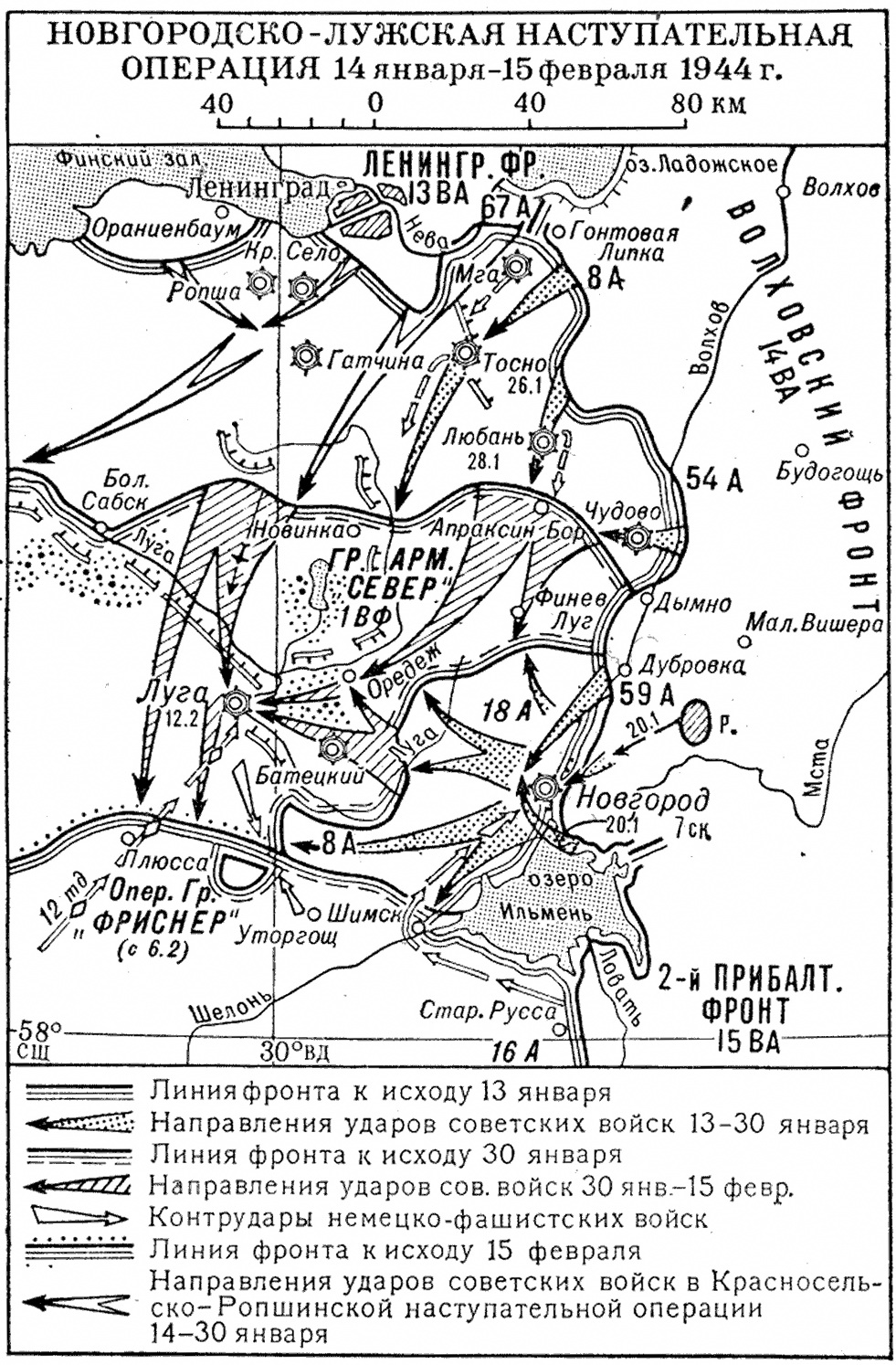 Novgorod-Luga Offensive, 14.01. - 15.02.1944